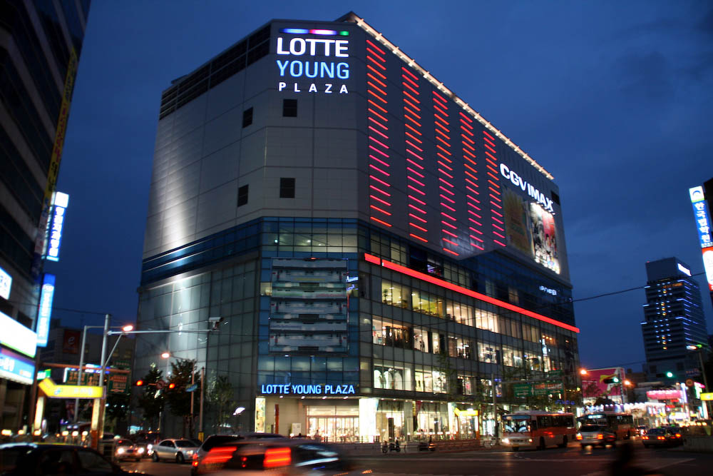 Lotte Young Shopping Plaza in Daegu, Korea